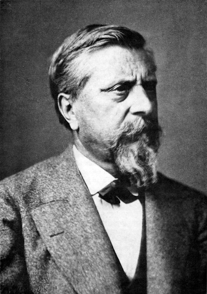 Frankfurt on the Main: Portrait of Carl Theodor Reiffenstein (1820–1893)